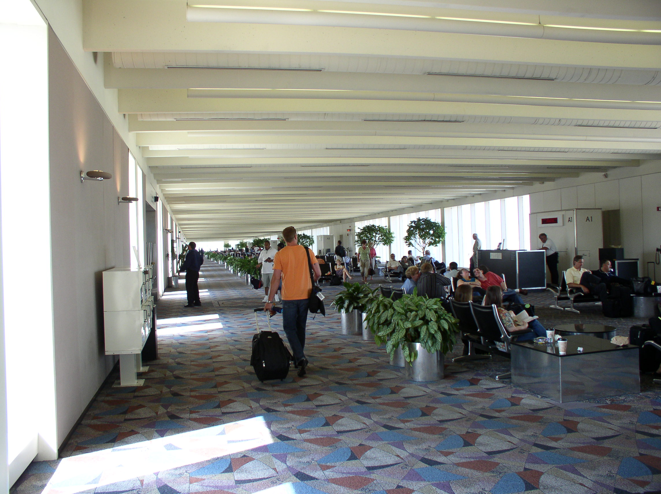 Concourse A of Greenville-Spartanburg International Airport